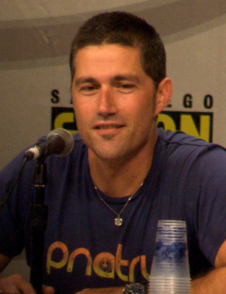 Matthew Fox at the 2008 Lost Comic Panel.